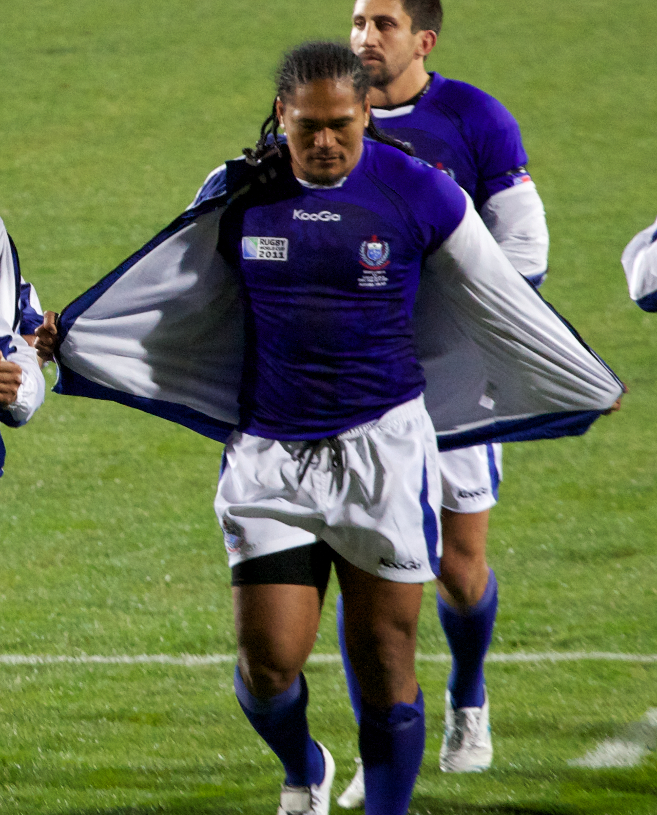 Samoan rugby union player Alesana Tuilagi during 2011 Rugby World Cup match against South Africa.